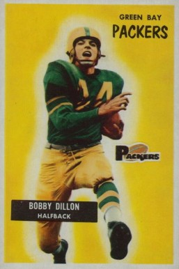 American football player Bobby Dillon on a 1955 Bowman trading card.